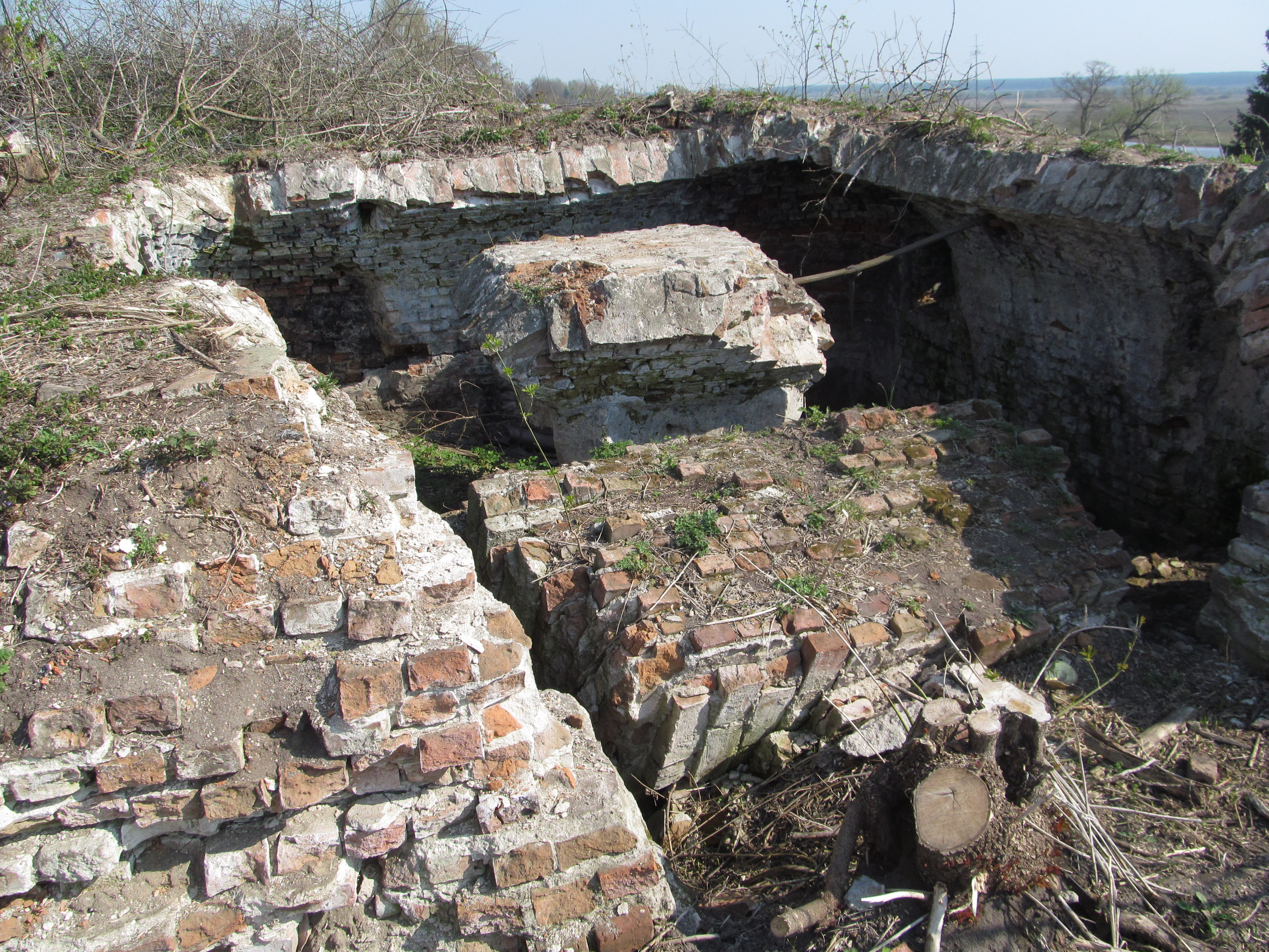 Castle hill town of Krichev, Belarus. The remains of the fortifications